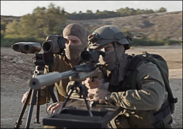 sniper in the Israeli army